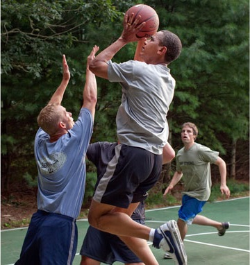 President Barack Obama playing basketball with staffers while on vacation in Martha's Vineyard.